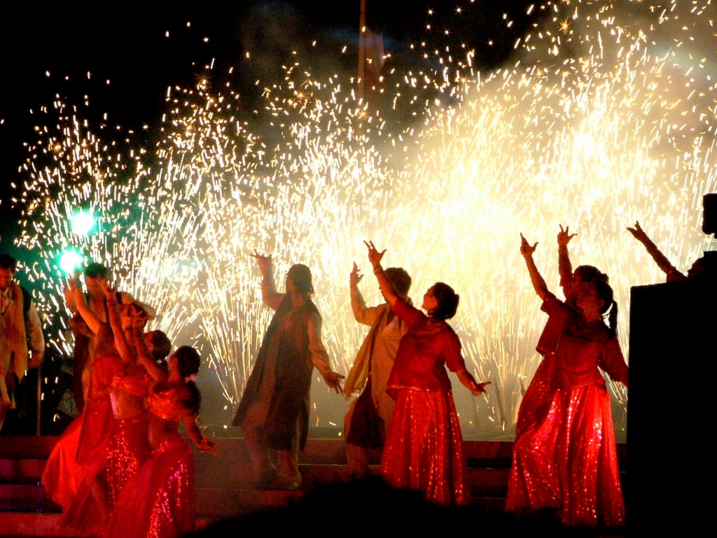 "Bollywood Steps" show from Bristol